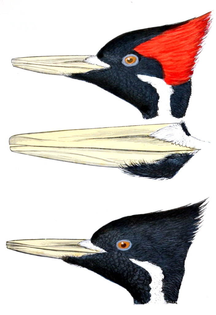 Ivory-billed Woodpecker, Campephilus principalis, male (above, with detail of bill), and female (below) lithograph or engraving/etching, hand colored. Note. Iris is shown as dark brown in illustration--this is likely an error--other illustrations from living birds show it is nearly white.